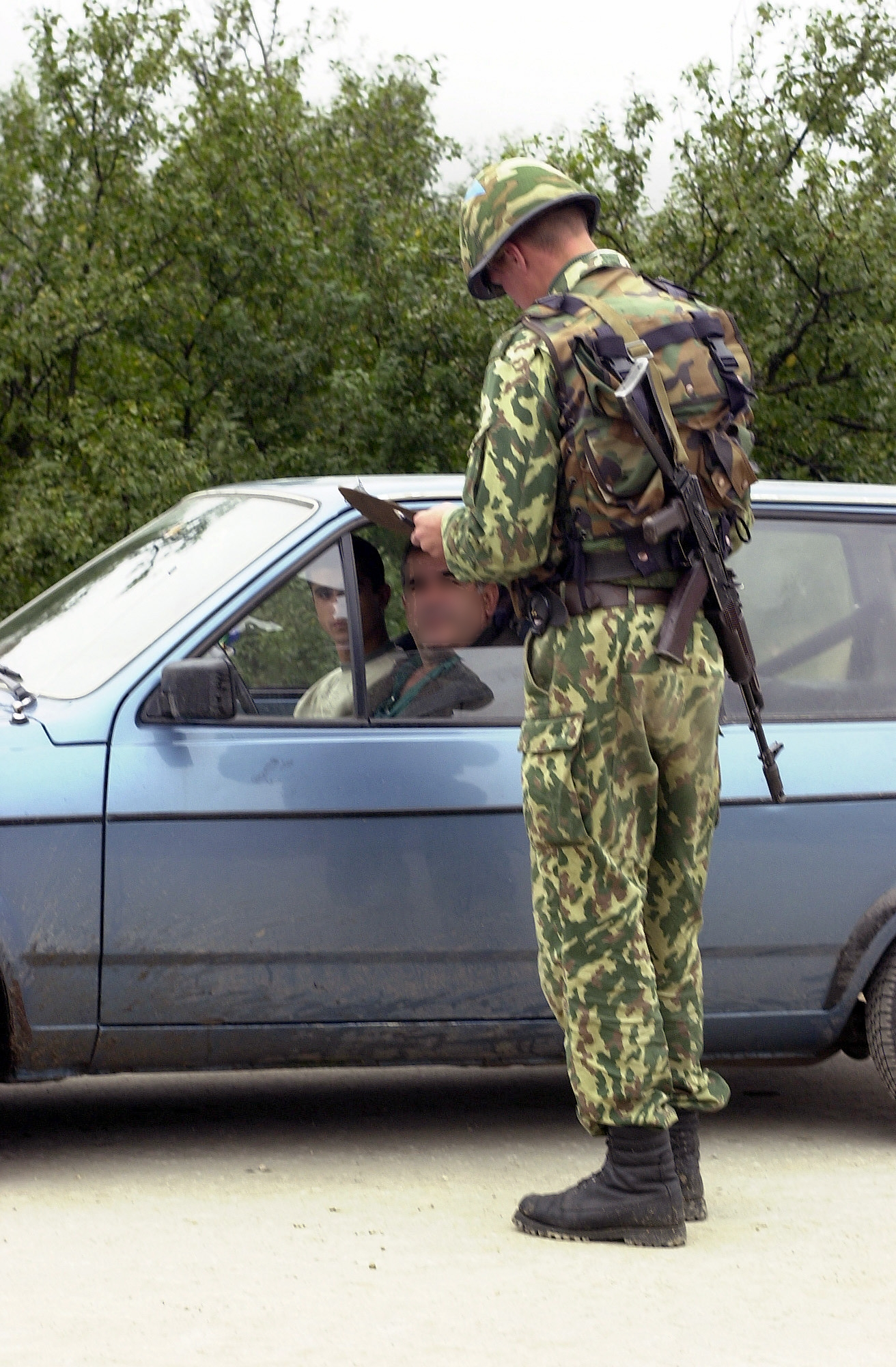 Sourced from: Details: ID: DASD0314942 Service Depicted: Other Service 011026A3639G017 Operation / Series: JOINT GUARDIAN II A Russian soldier with the 13th Tactical Group, checks a civilian stopped at Checkpoint 75 in the East sector of Kosovo, jointly guarded by American and Russian soldiers to check incoming and outgoing traffic, in support of Operation JOINT GUARDIAN II. Camera Operator: SPC JESSIE GRAY, USA Date Shot: 26 Oct 2001